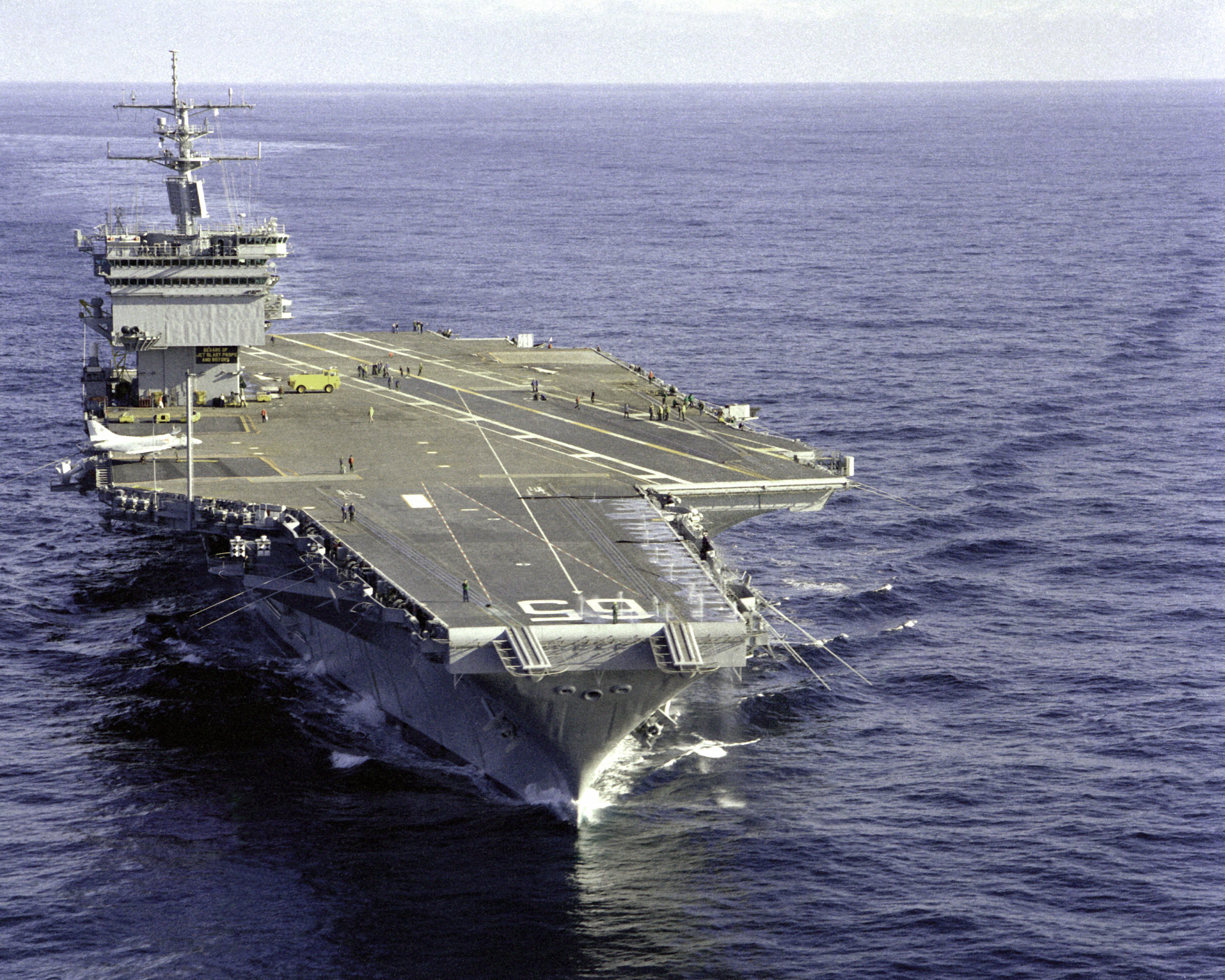 Head on bow view of the nuclear-powered aircraft carrier USS ENTERPRISE (CVN-65) underway during sea trials off the coast of Washington state. The ENTERPRISE has been in dry dock for repairs and modifications.